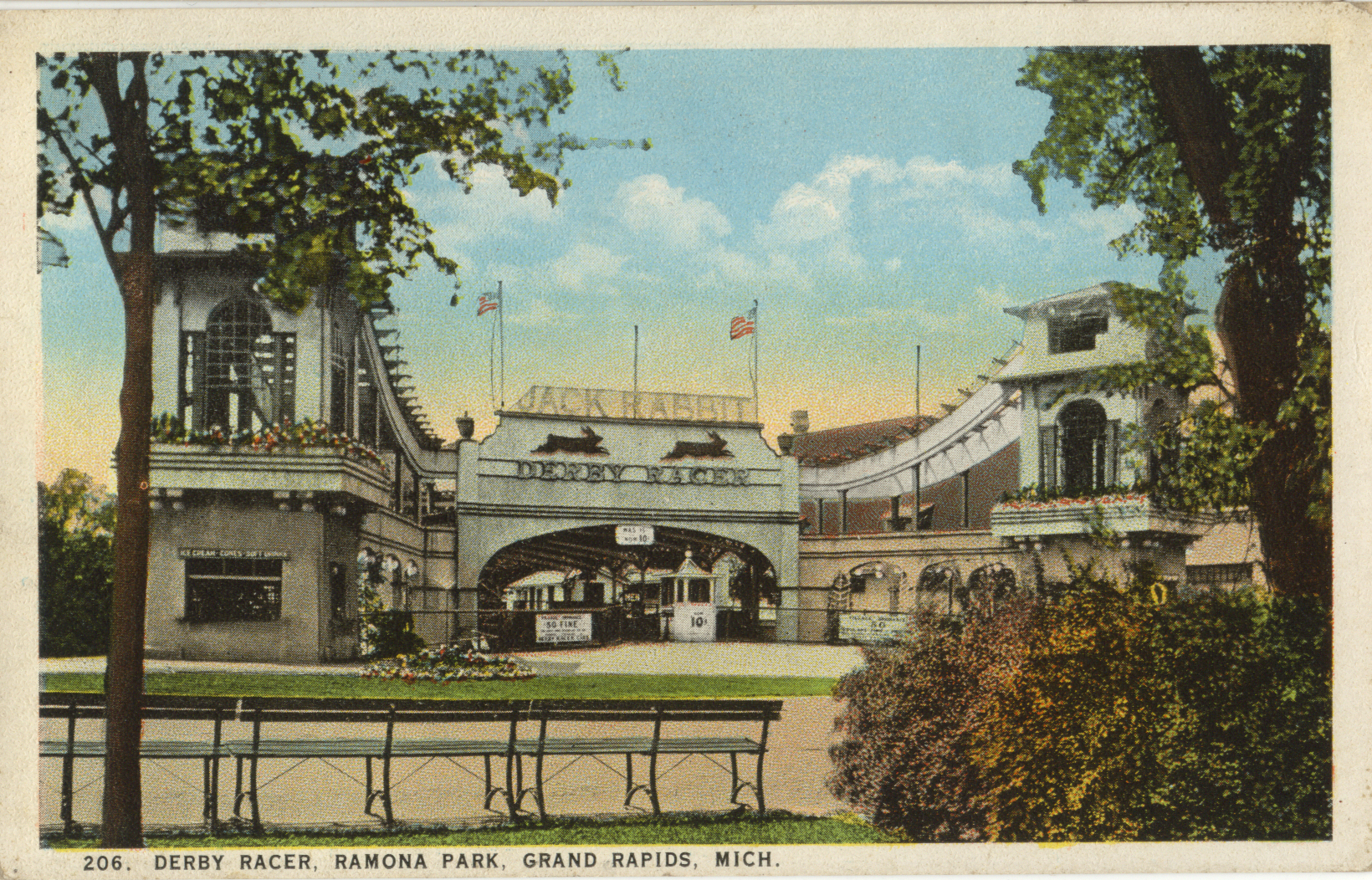 Postcard – 025 - 026 - Derby Racer, Ramona Park, Grand Rapids, Mich. - No. 206 - Published by Heyboer Stationery Co., Grand Rapids, Mich. Made in USA - Facade - circa 1920. Wooden dual track roller coaster.